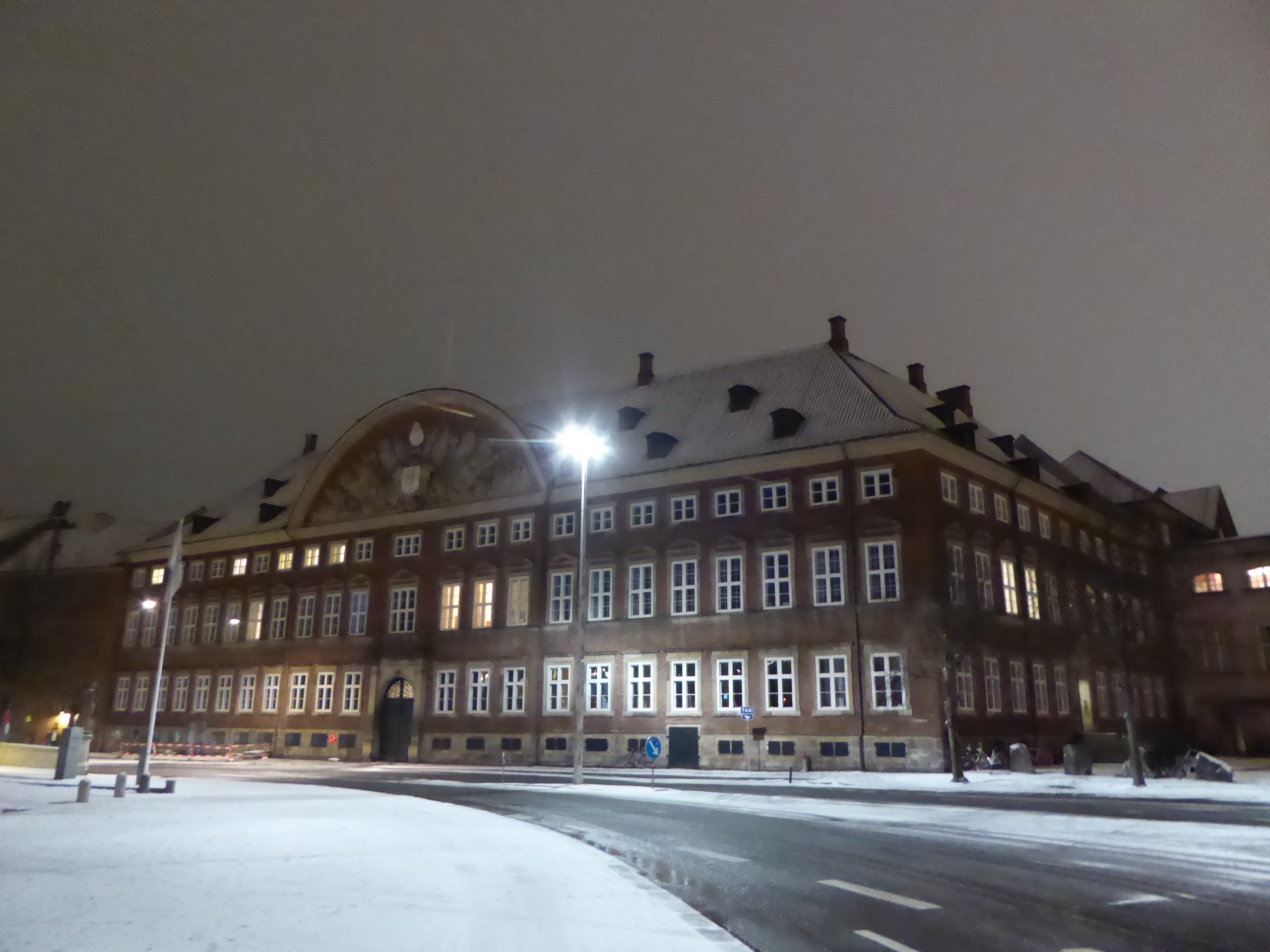 Evening with snow at Kancelibygningen (the Chancery Building) in Indre By in Copenhagen.